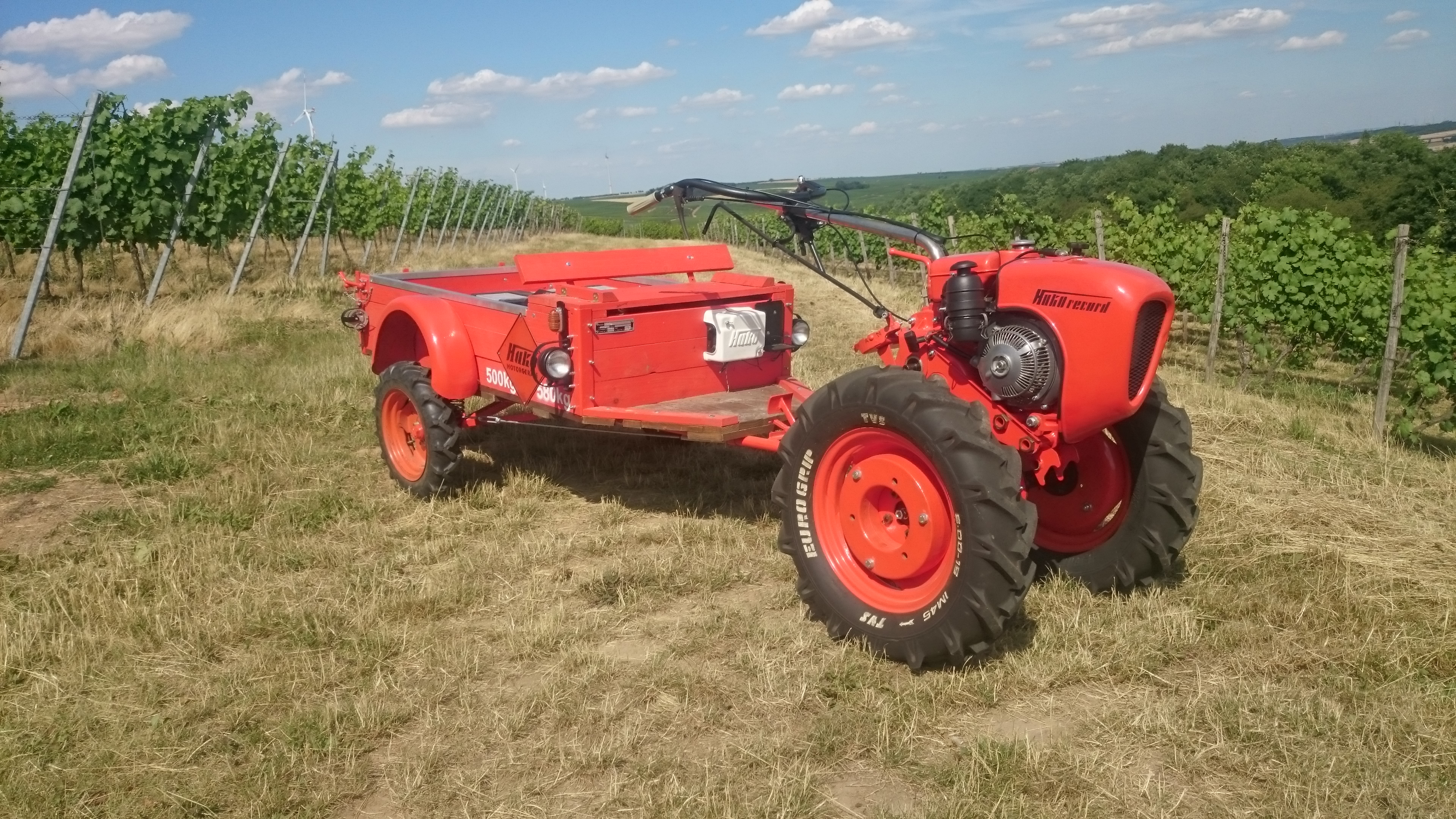 The picture shows a HAKOrecord with a trailer between two vineyards in the wine-growing region of Rheinhessen, Germany.